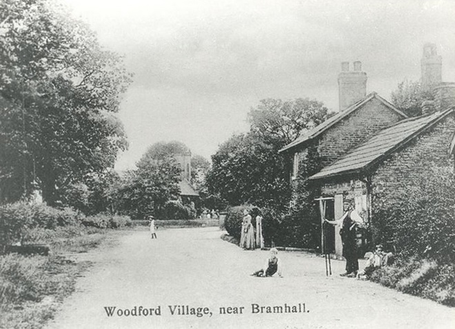 Chester Road looking south west in Woodford in Stockport. Behind the cottages is the Davenport Arms public house. In the distance is Christ Church.